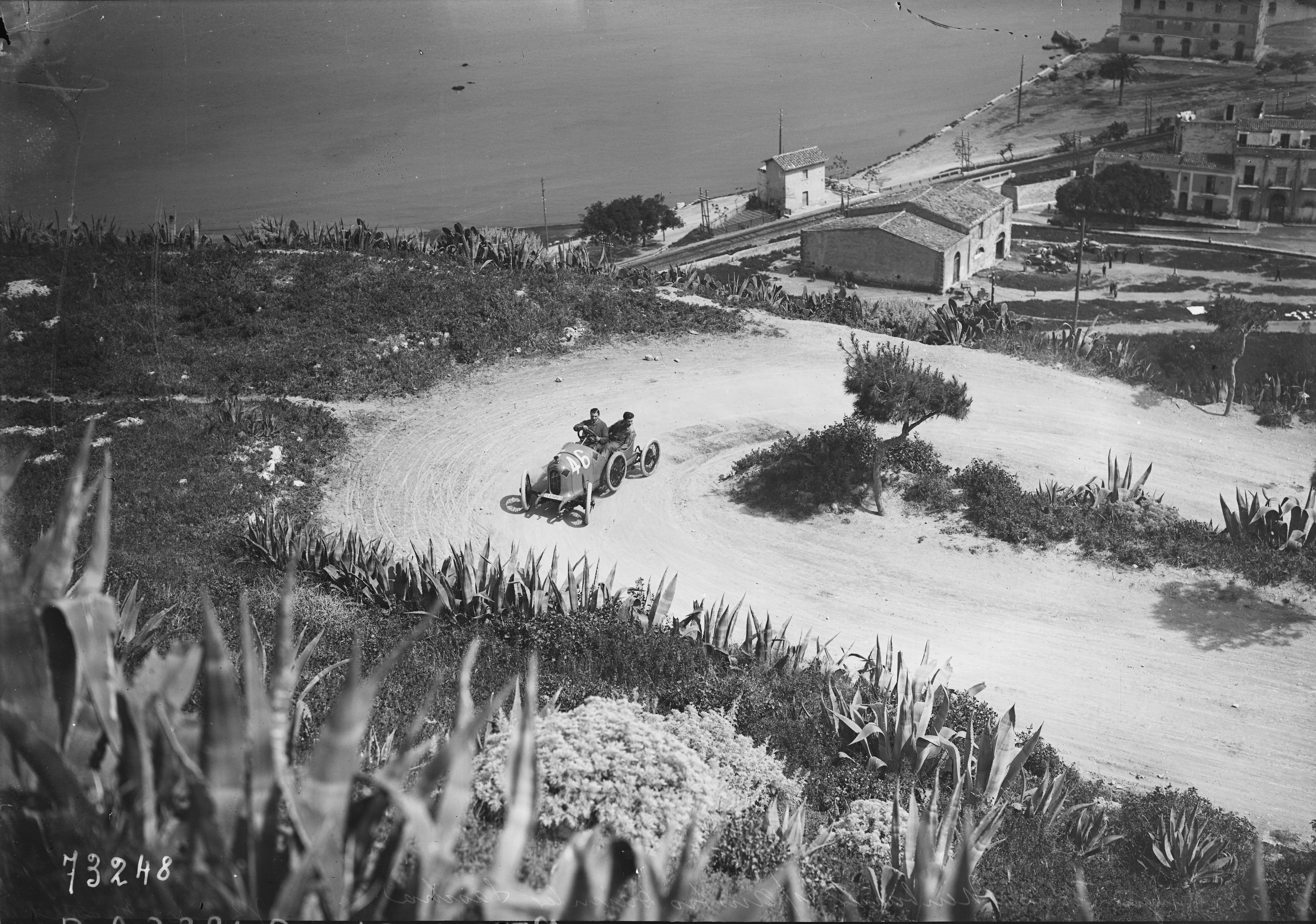 Alfred Neubauer in his Austro-Daimler at the 1922 Targa Florio.